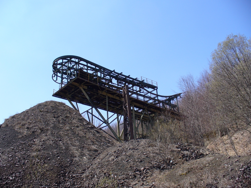 Tajmište mine, Macedonia